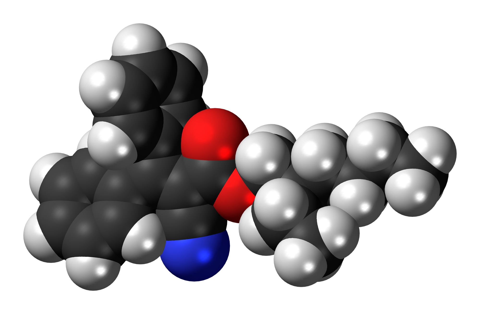 Space-filling model of the octocrylene molecule, a compound used in sunscreens and cosmetics. Color code Carbon, C: black Hydrogen, H: white Oxygen, O: red Nitrogen, N: blue